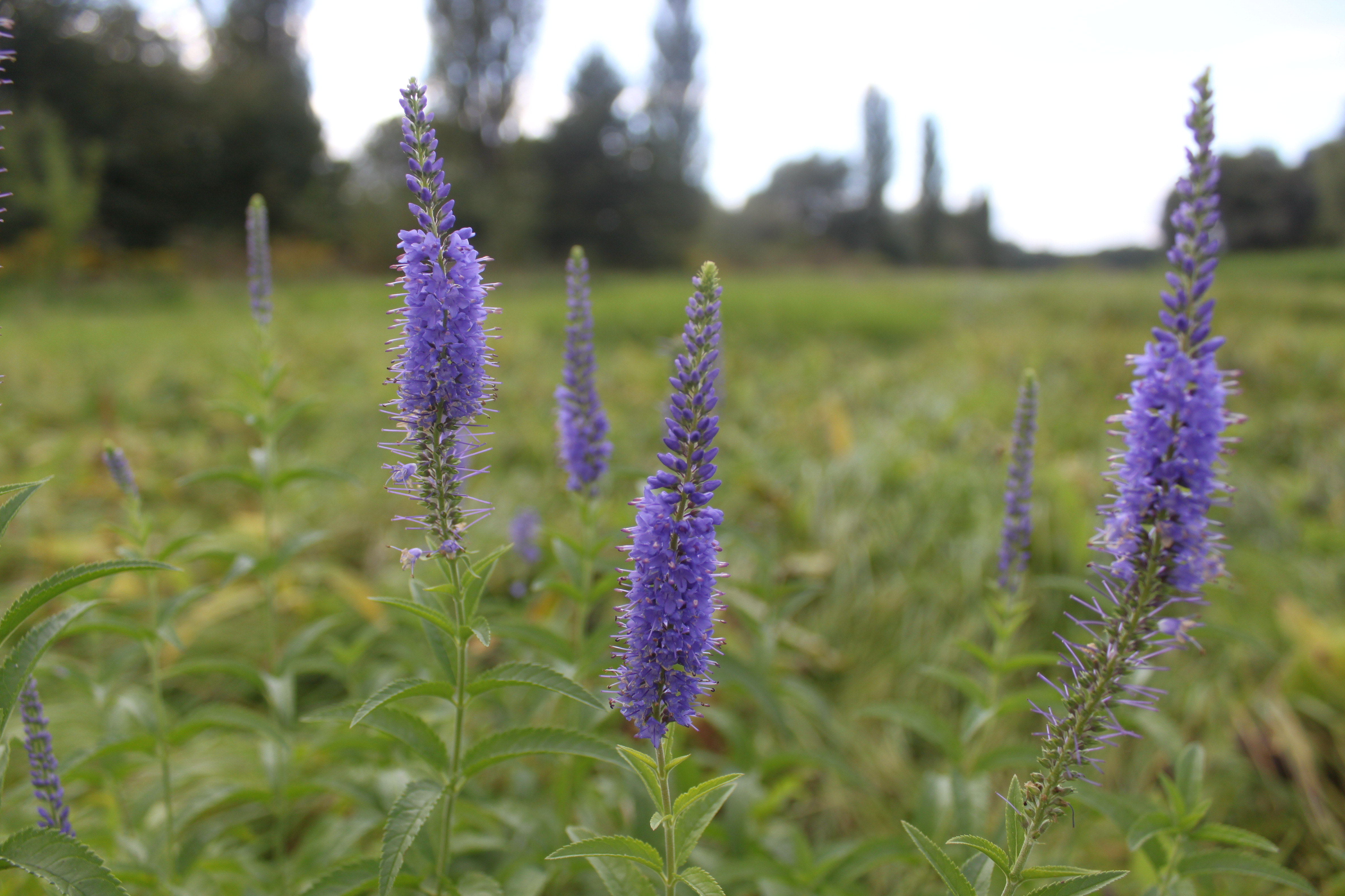 Nature reserve "Týnecké mokřiny" in Kolín District, Czech Republic. Wetlands with rare plant and bird species and "NATURA 2000" locality of toad Bombina bombina